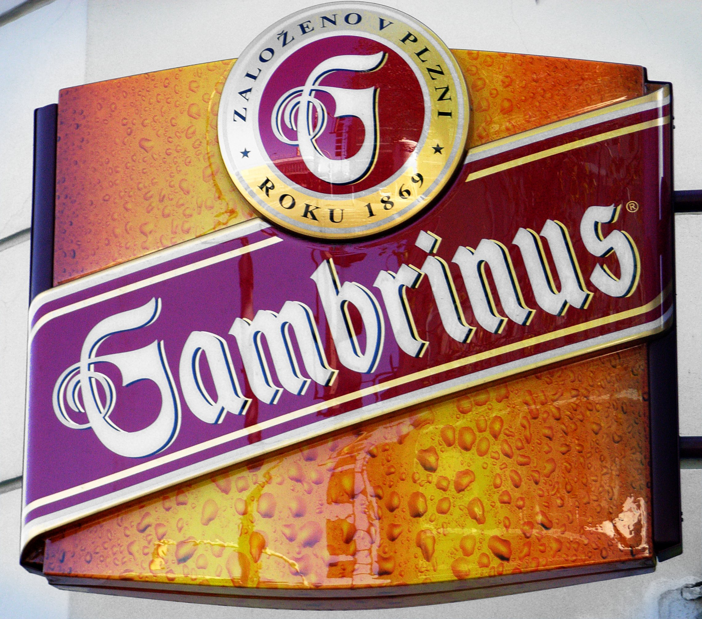 Close up of Czech beer brewery logo